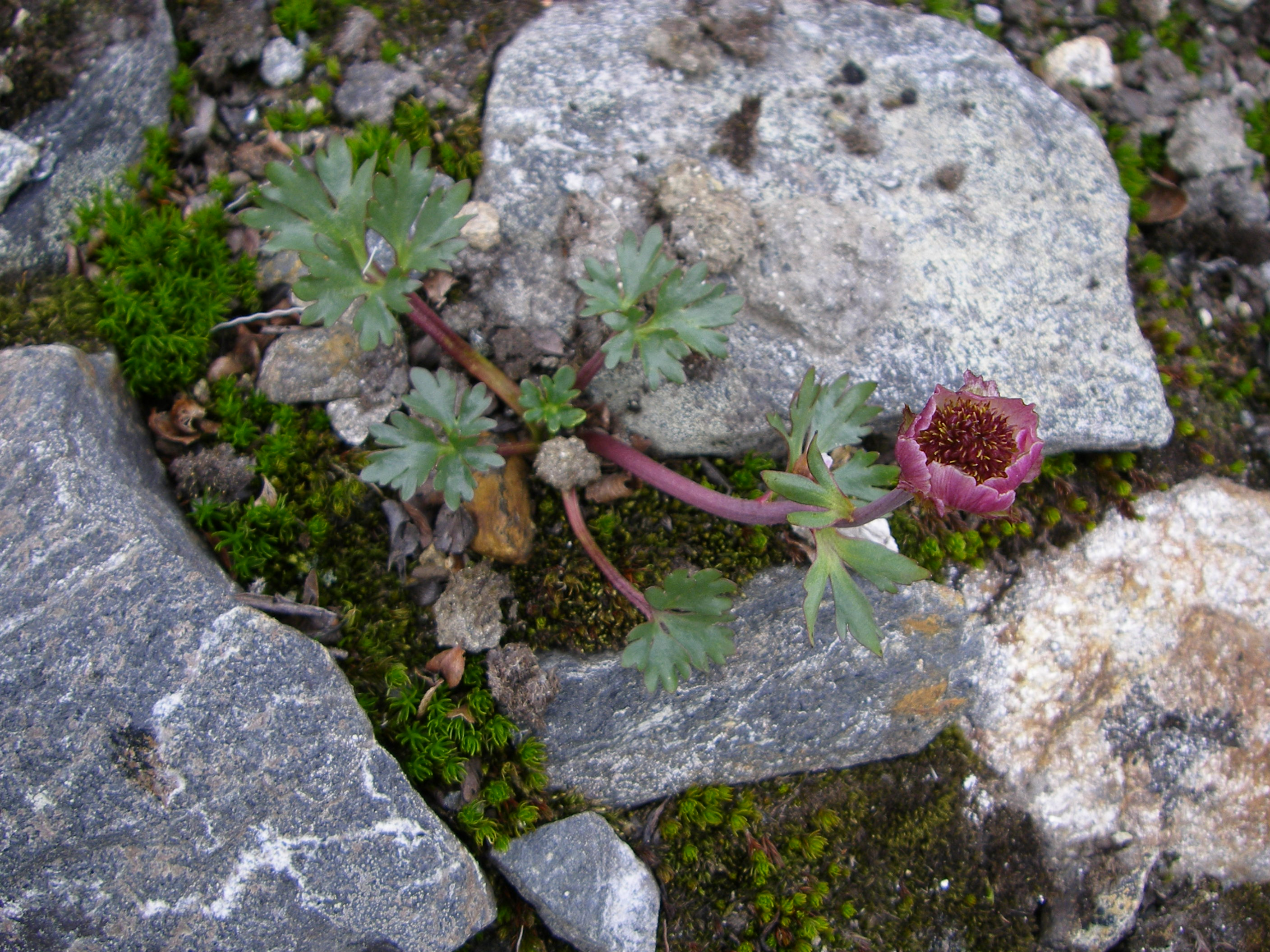 The Ranunculus glacialis flower, bloomed out. Taken in the Padjelanta national park in northern Sweden.